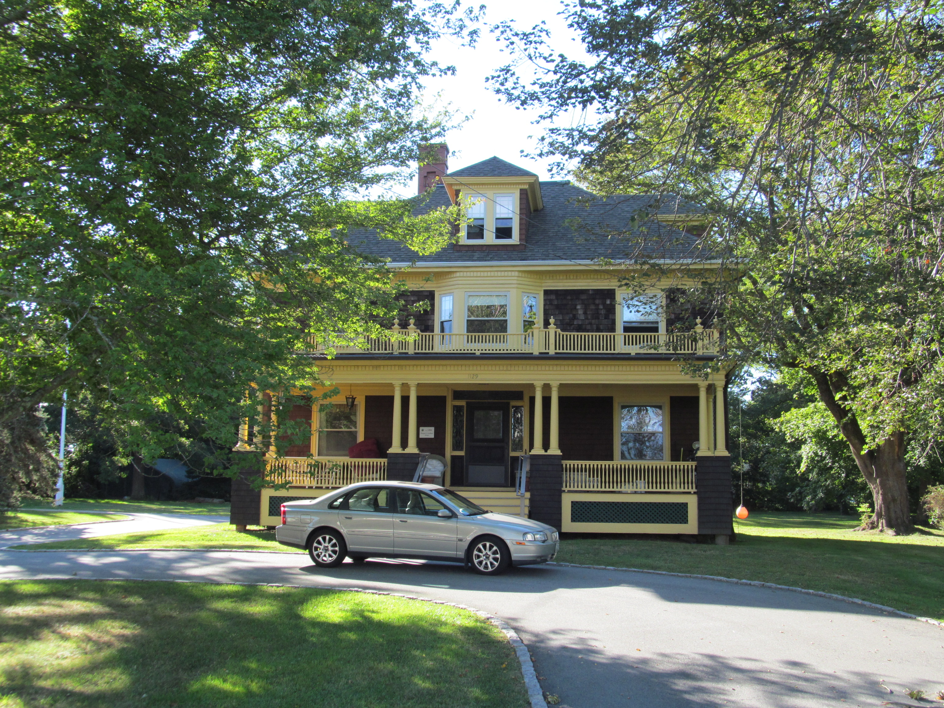 Francis L. Gardner House, South Swansea Massachusetts